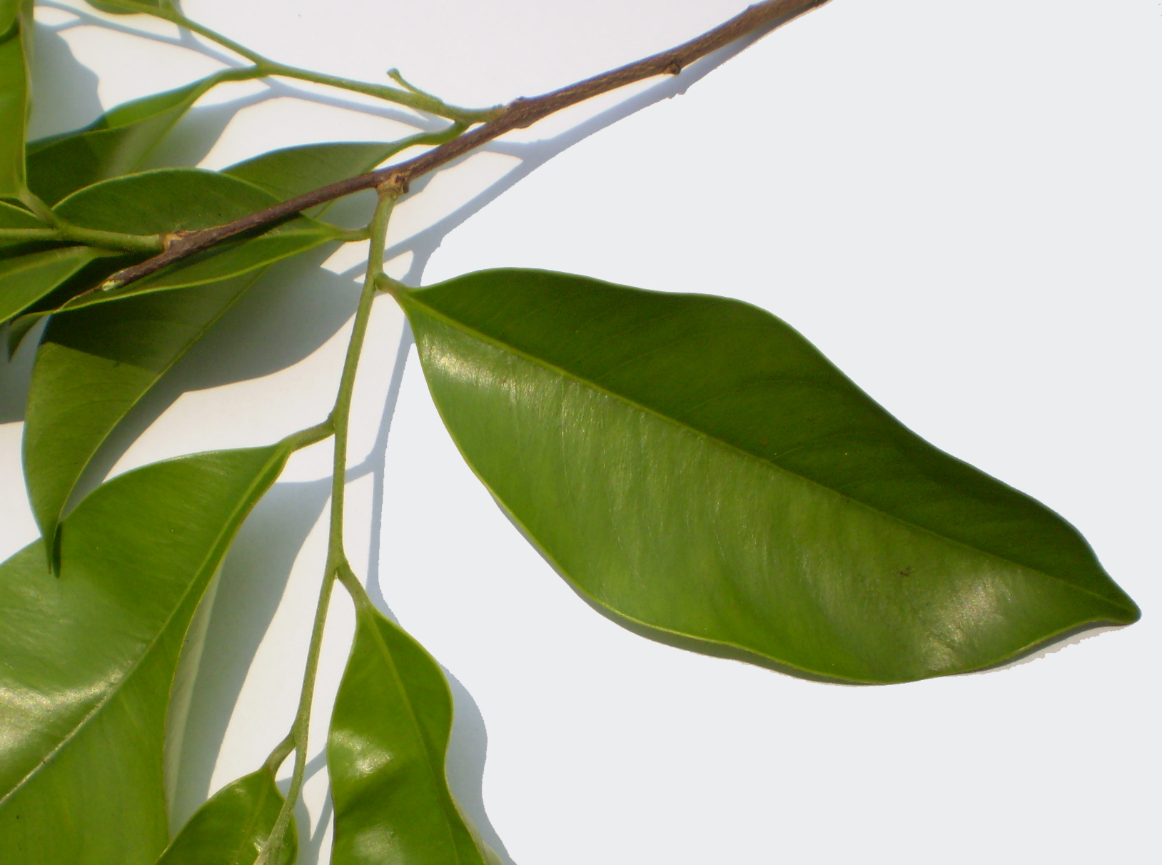 Leaves of Aquilaria